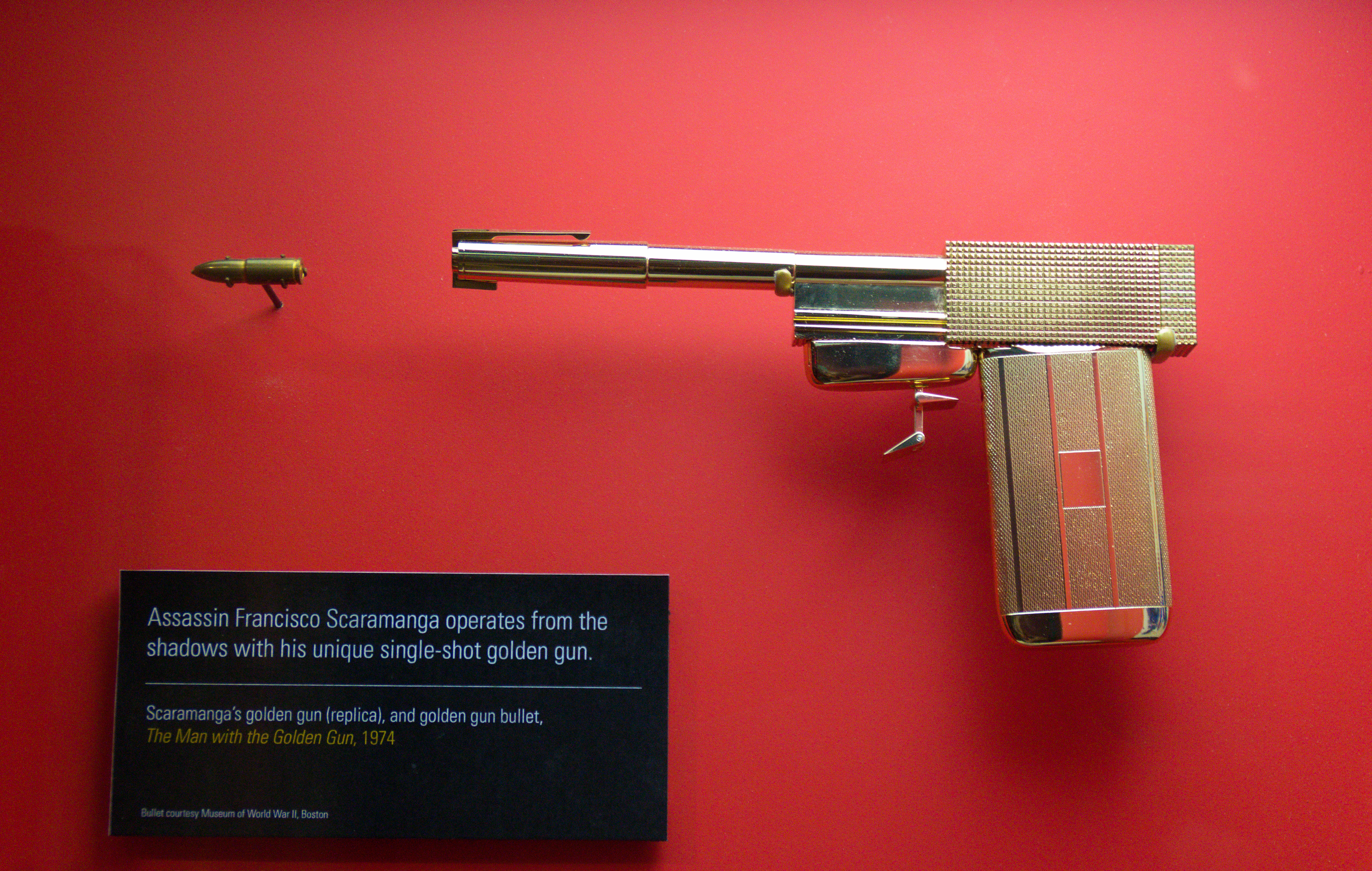 Golden Gun - International Spy Museum Assassin Francisco Scaramanga operates from the shadows with his unique single-shot golden gun.